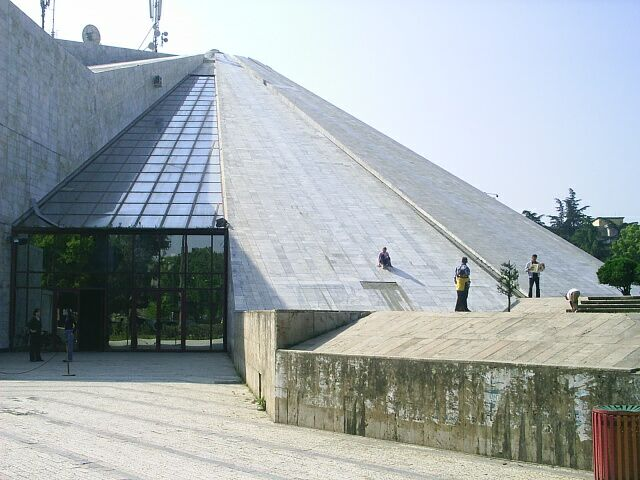 Tirana, capital of Albania